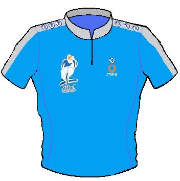 Statoil Kring Foroyar Leader Jersey of 2006 edition